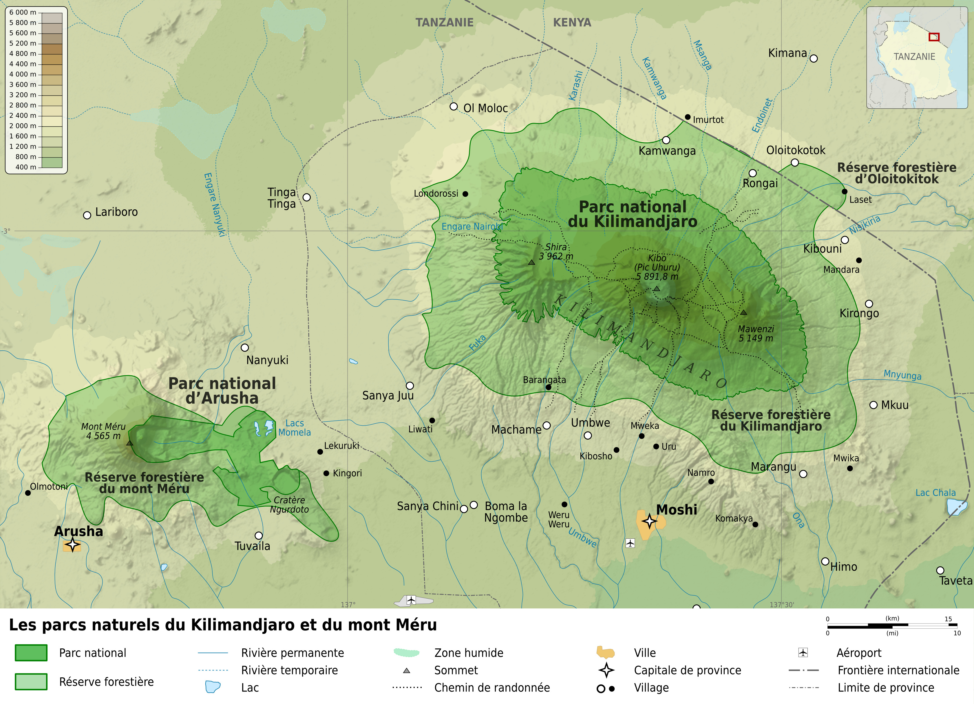 Map of national parks and forest reserves of Mount Kilimanjaro and Mount Meru, Tanzania.